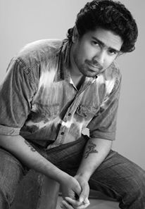 my own pic